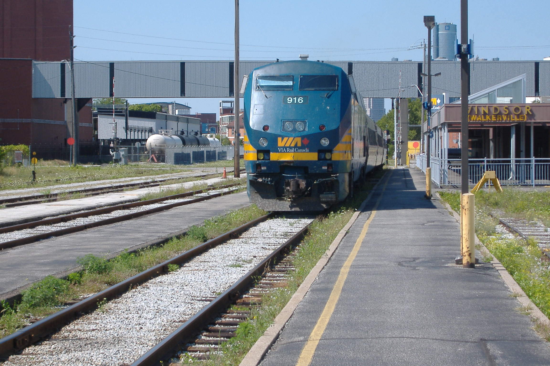 VIA Train waiting in the Windsor Ontario Station